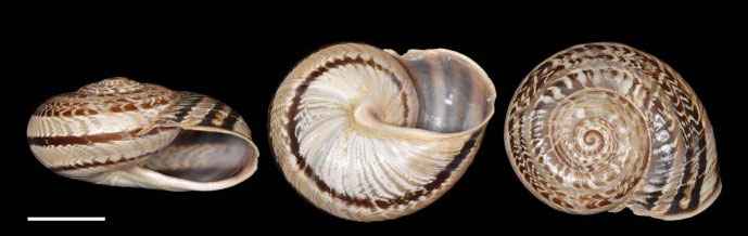 Three views of the shell of Allognathus hispanicus